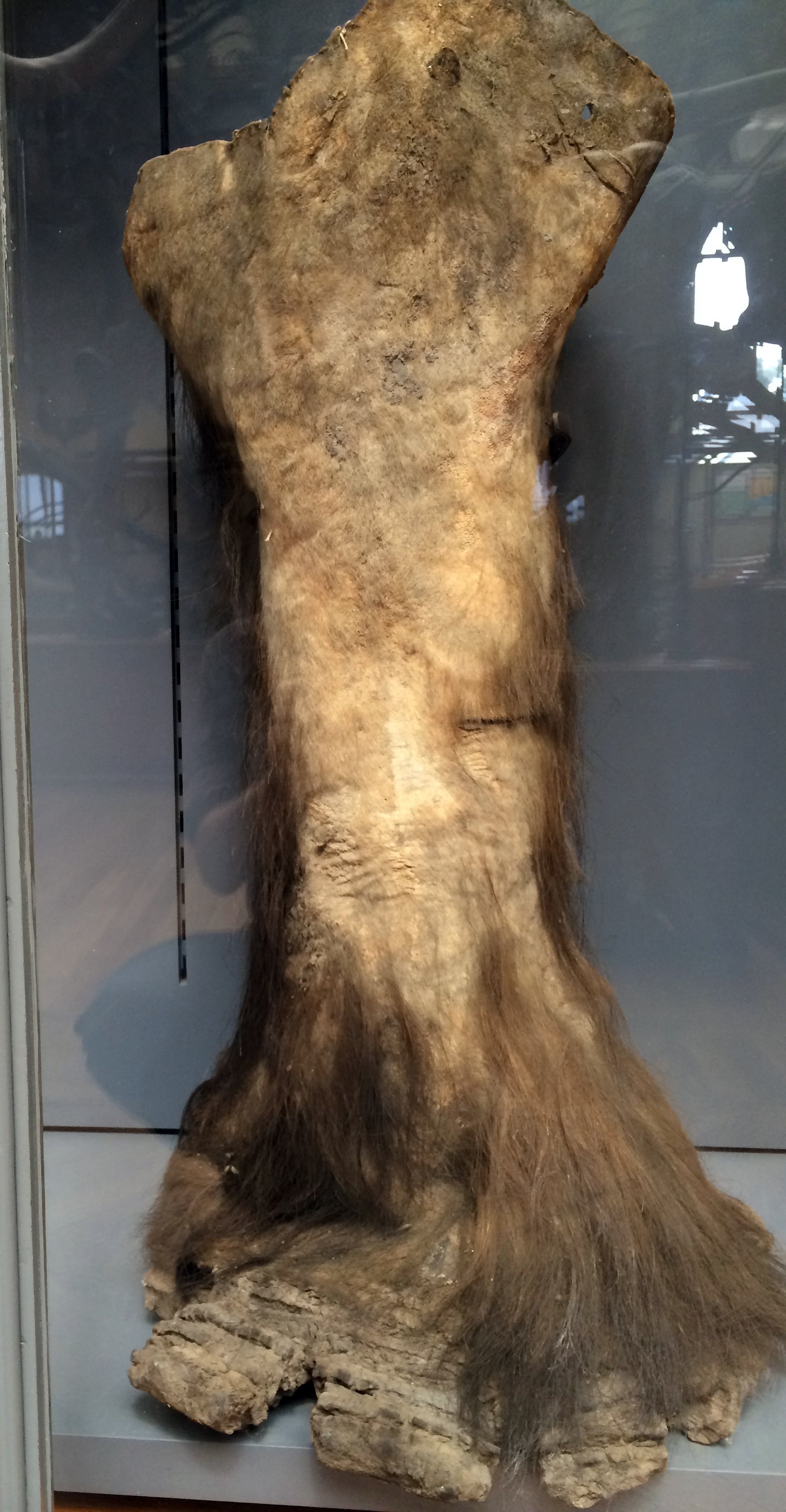 Mammoth hair and skin, preserved in Siberian ice